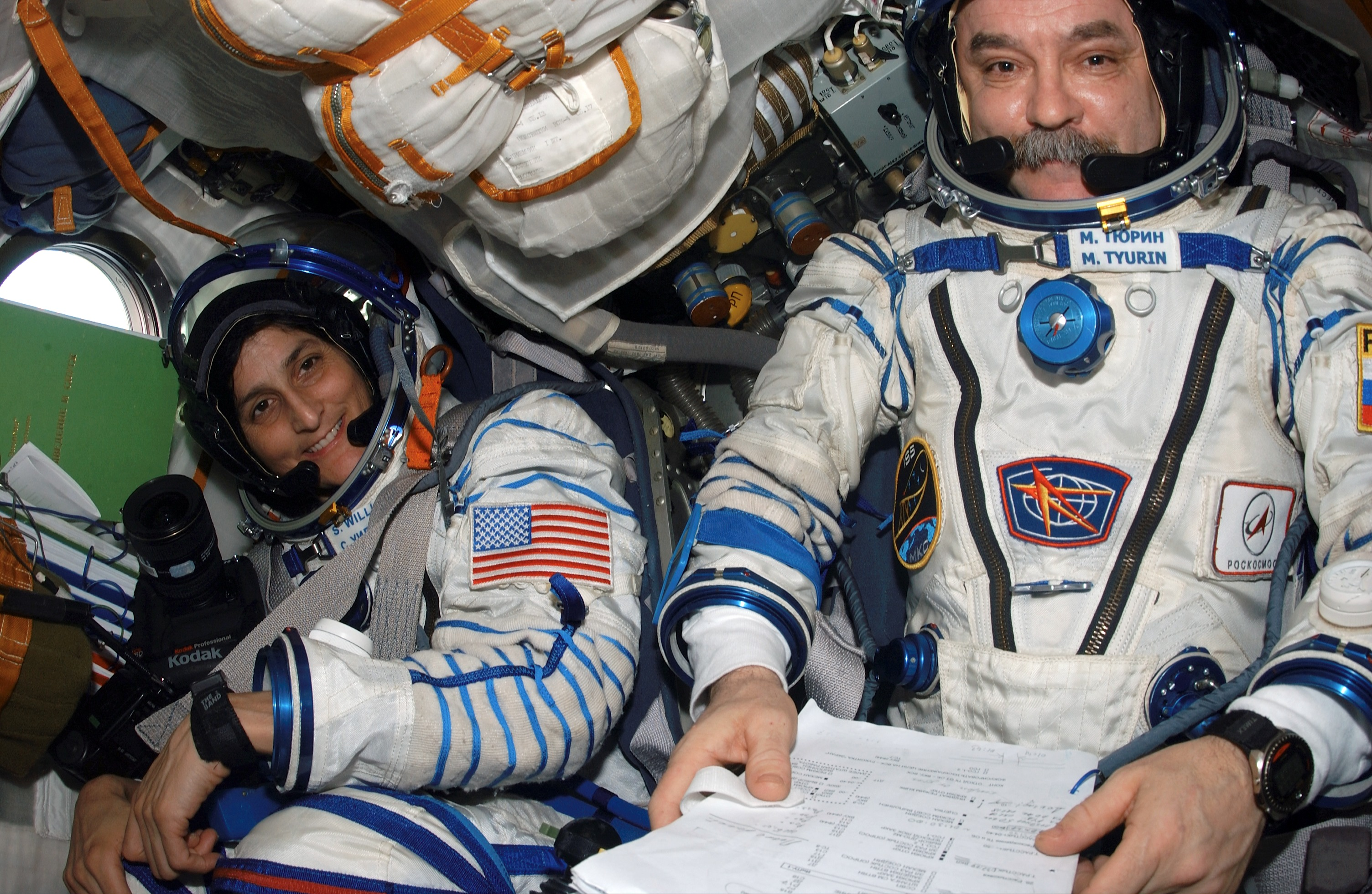 Astronaut Sunita L. Williams (left), Expedition 14 flight engineer, and cosmonaut Mikhail Tyurin, Soyuz commander and flight engineer, occupy their seats in the Soyuz 13 (TMA-9) spacecraft docked to the International Space Station. Attired in their Russian Sokol launch and entry suits, Tyurin, Williams and astronaut Michael E. Lopez-Alegria (out of frame), commander and NASA space station science officer, were about to relocate the Soyuz from the Zarya Module nadir port to the Zvezda Service Module aft port in preparation for the arrival of Expedition 15.